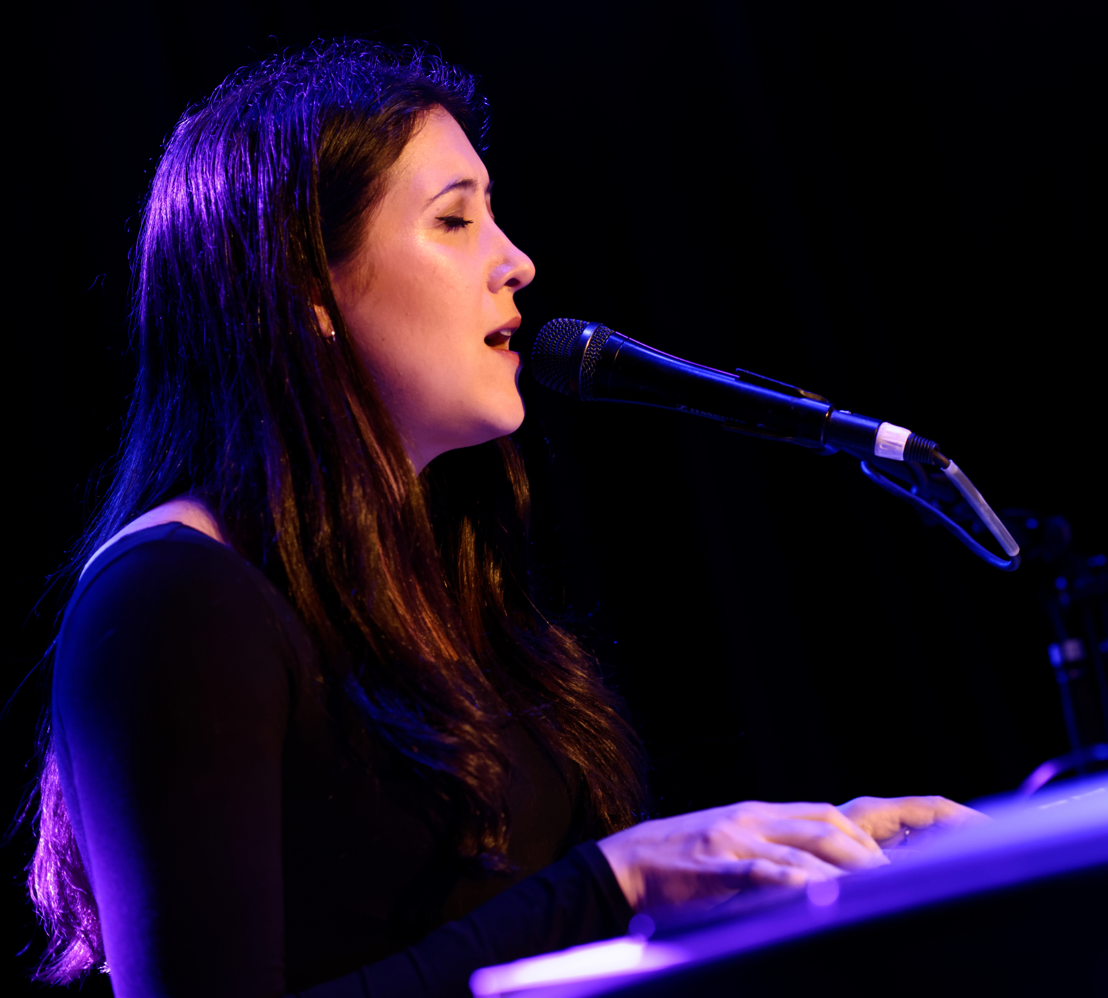 Vanessa Carlton (with Skye Steele) performing live at The Roxy Theatre in West Hollywood (Los Angeles) California on Thursday January 21st, 2016.